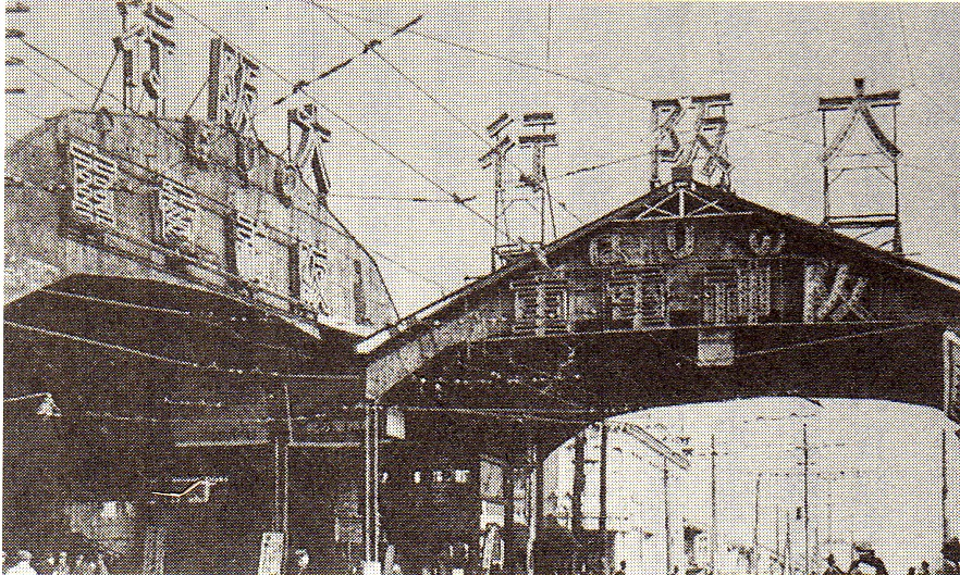 Takimichi station(Kobe station) of Hanshin Railway in 1912. In the right side, there was a tram stop of Kobe Electric Railway (later Kobe city transportation bereau).